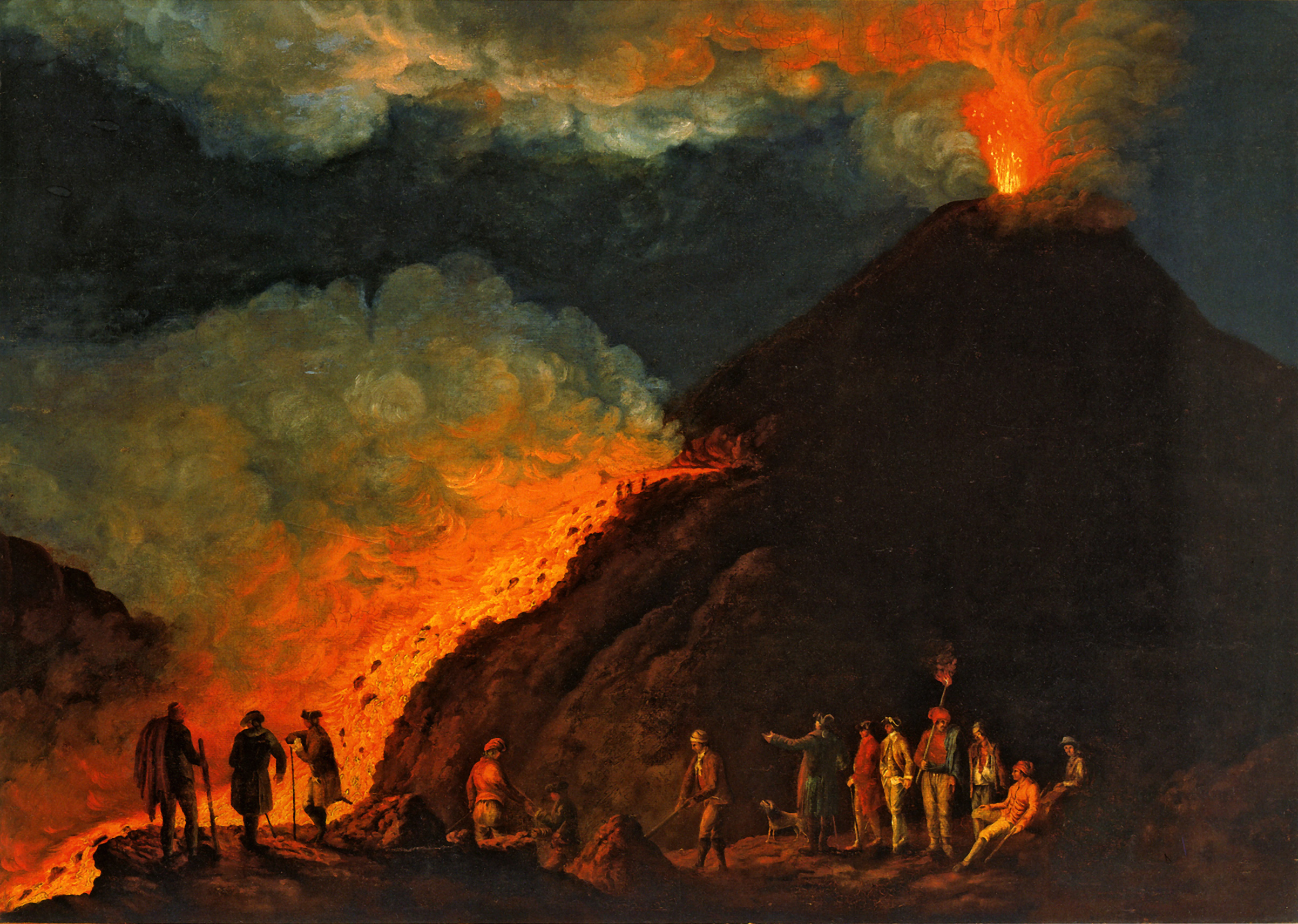 Jakob Philipp Hackert, The Eruption of Vesuvius in 1774 (1774 ?), oil on paper (mounted on wood), 61 x 87 cm, privately held.